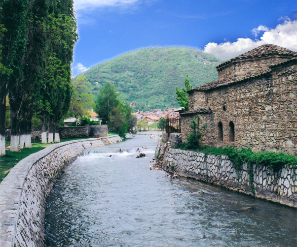 Pena River and Turkish hamam, Tetovo, Republic of Macedonia.